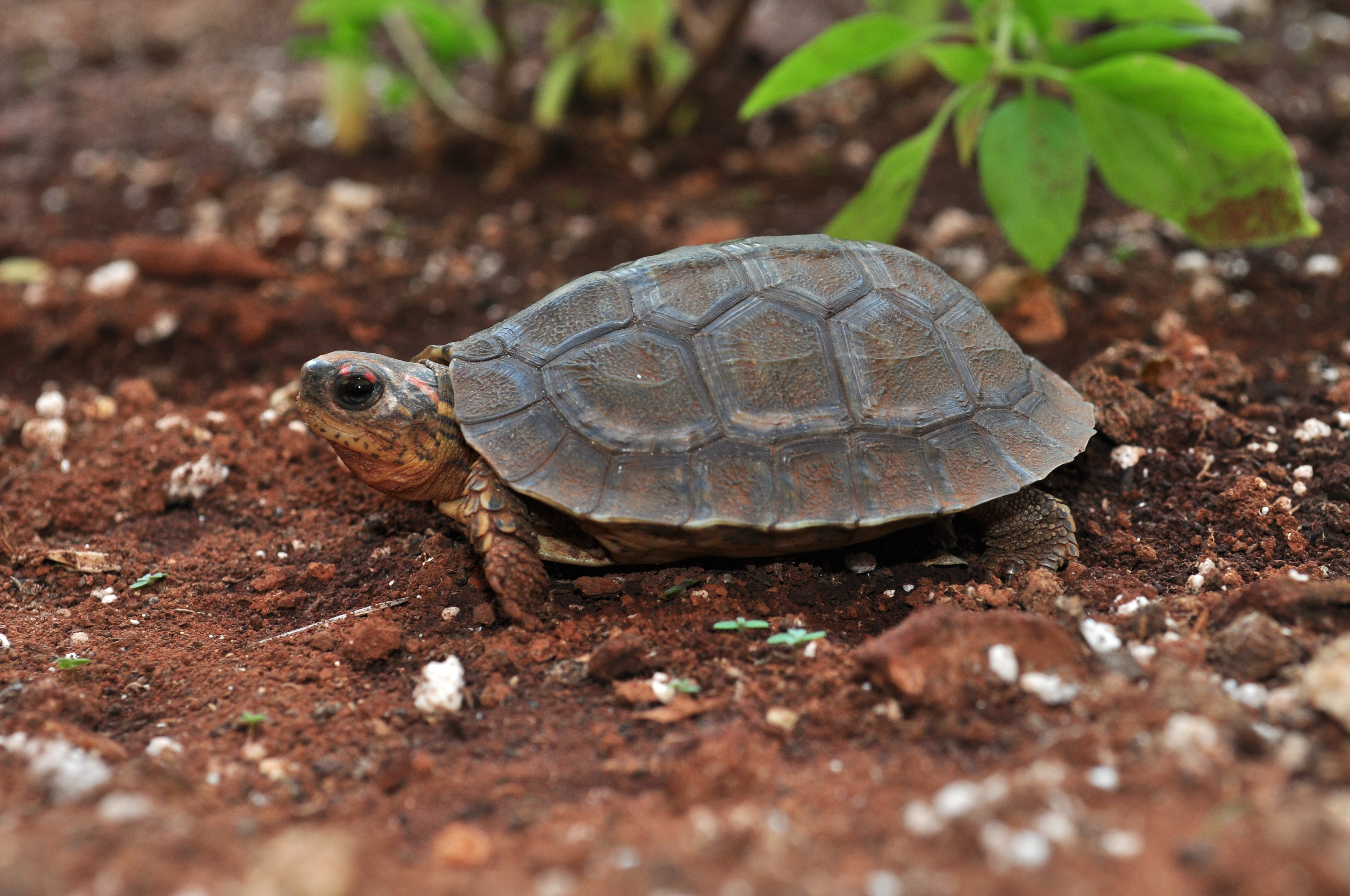 A Rhinoclemmys areolata from Yucatán.